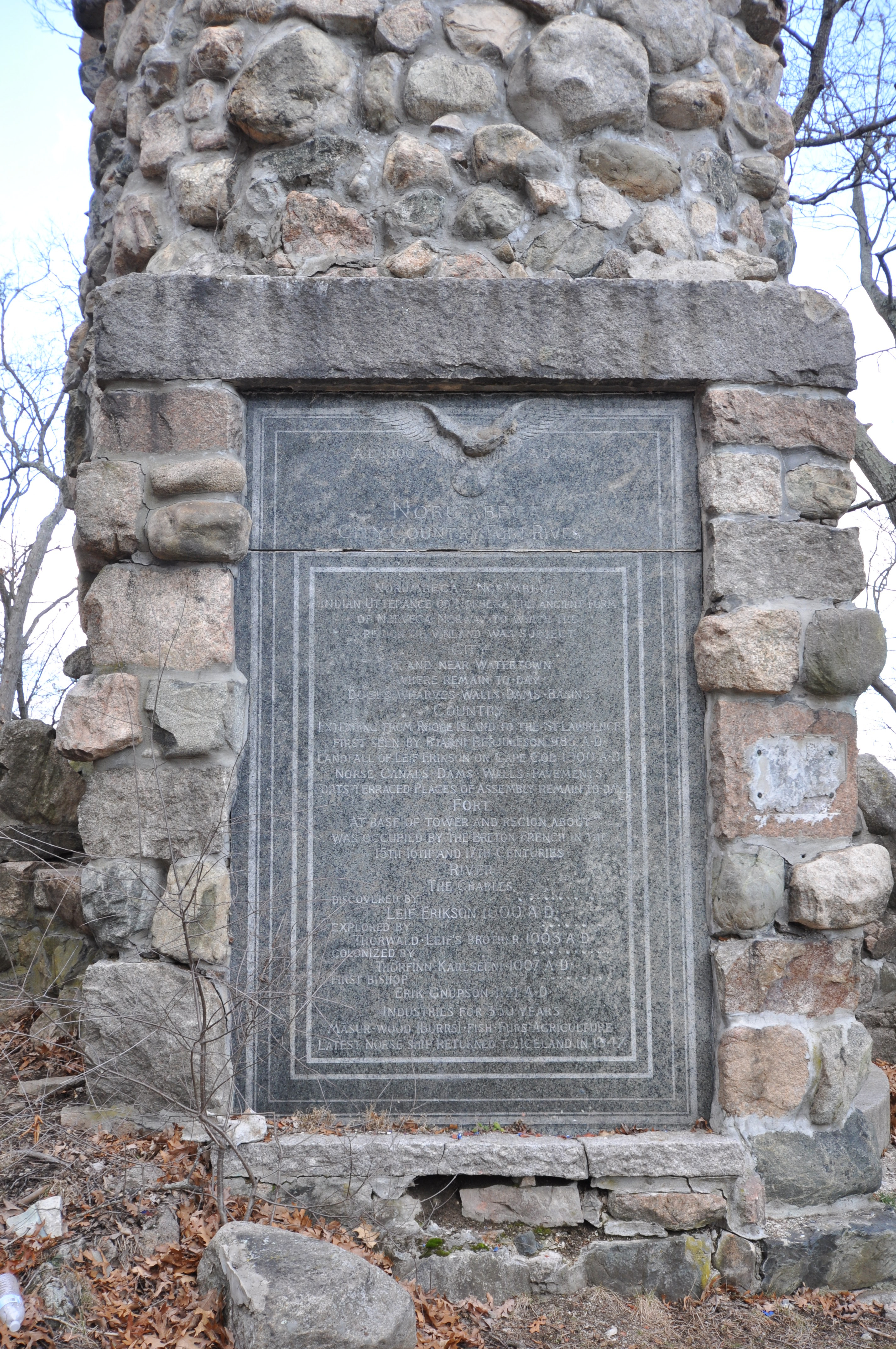 Closeup of engraved plaque on the Norumbega Tower, Weston, Massachusetts.